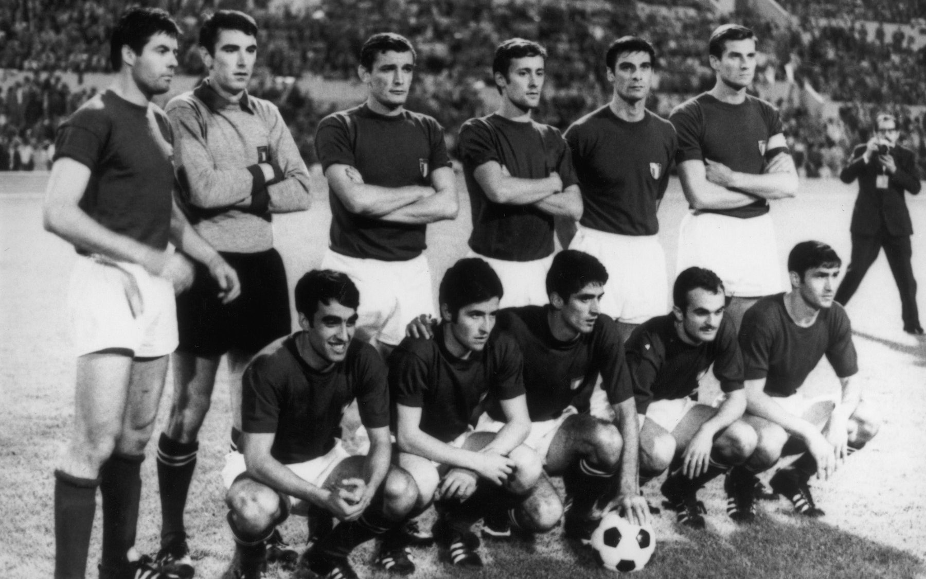 Rome, Olympic Stadium, June 10, 1968. A line-up of Italy national football team took to the field for the replay of the victorious UEFA Euro 1968 final versus Yugoslavia (2-0). From left to right, standing: S. Salvadore, D. Zoff, L. Riva, R. Rosato, A. Guarneri, G. Facchetti (captain); crouched: P. Anastasi, G. De Sisti, A. Domenghini, A. Mazzola, T. Burgnich.